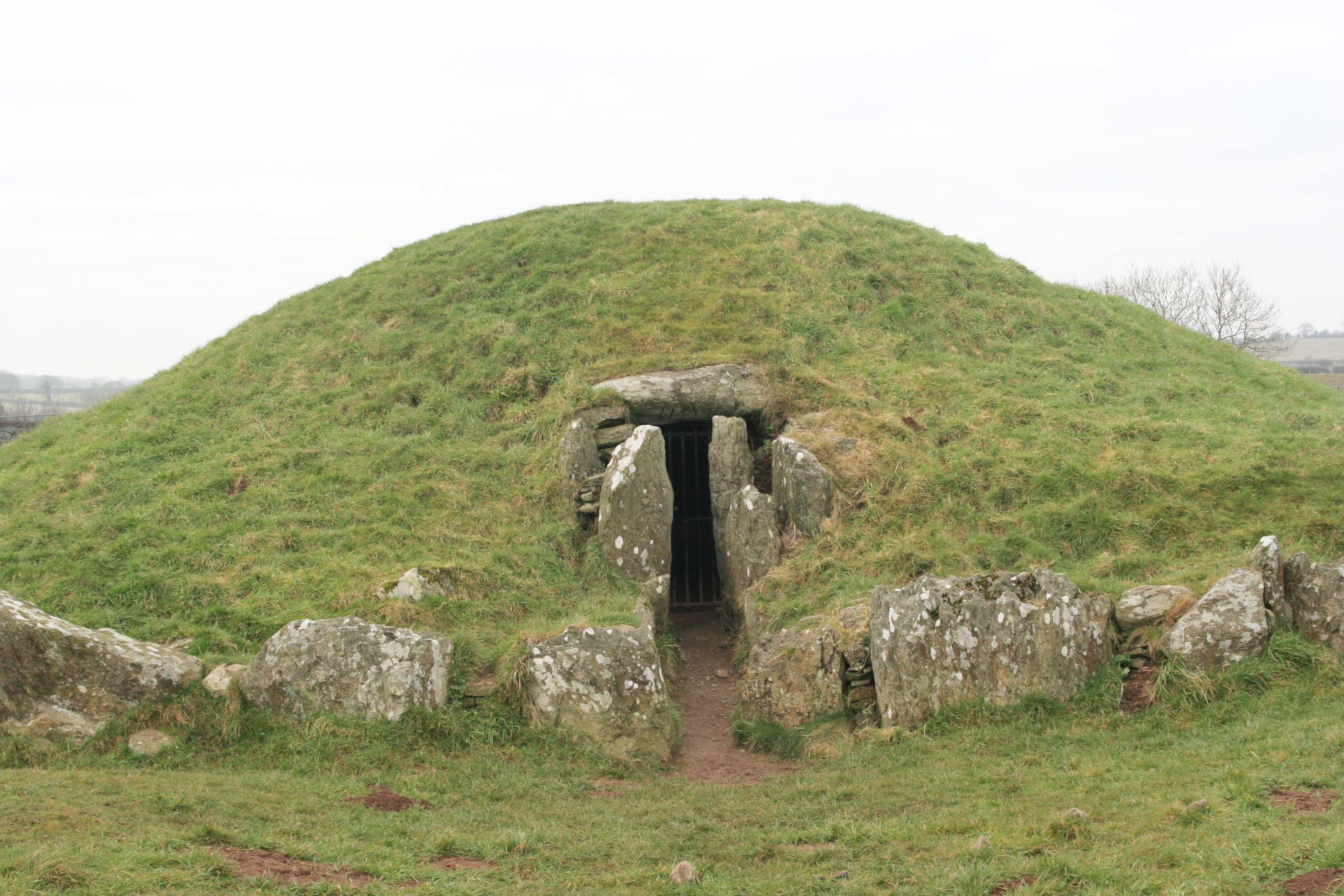 Bryn Celli Ddu, north-east side, main entrance Môn/ Anglesey Rhion Pritchard